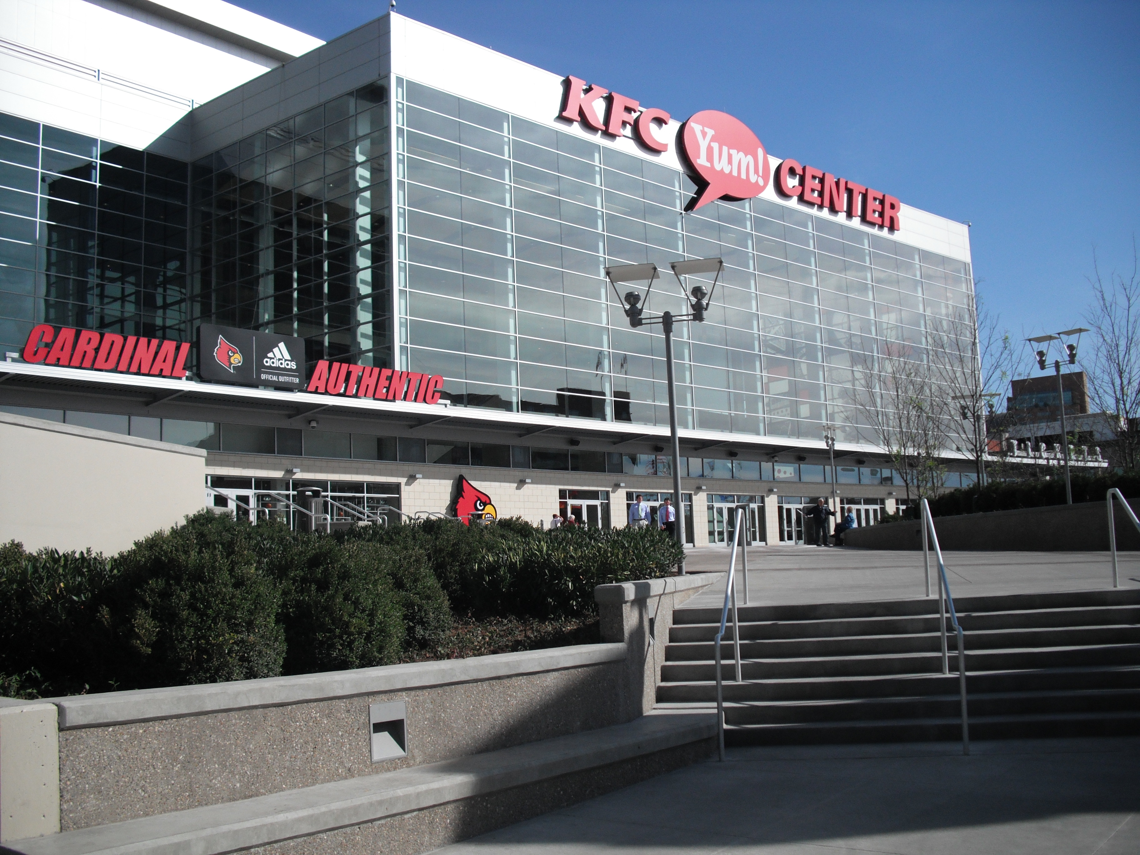 The front entrance to the KFC Yum! Center